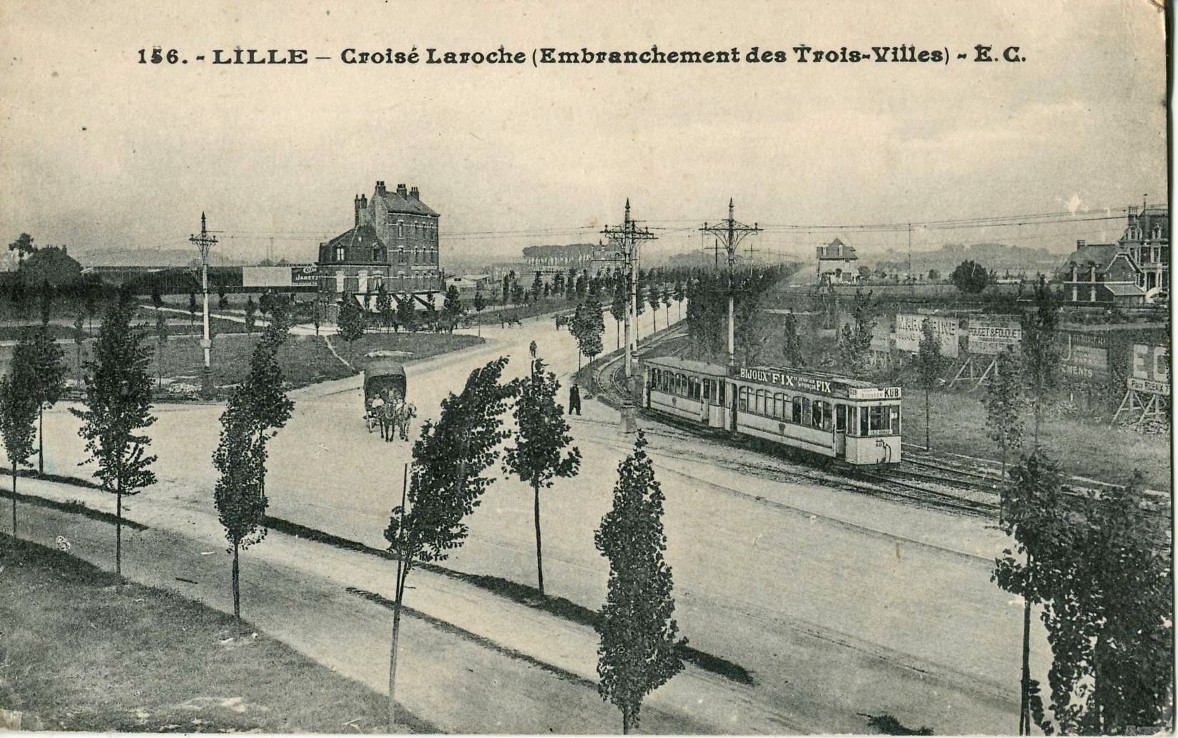 É